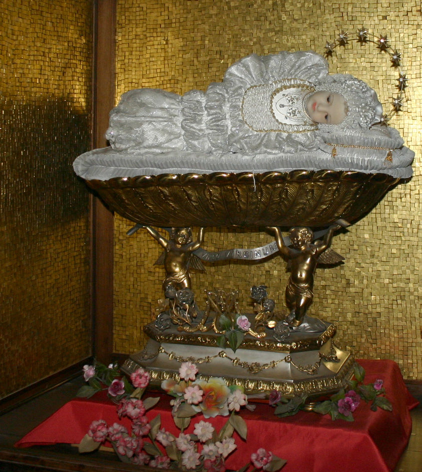 Wax statuette, in the fashion of the 19th century, of the Virgin Mary as a newborn. Left transept of San Marco church in Milan, Italy. Picture by Giovanni Dall'Orto, April 14 2007.